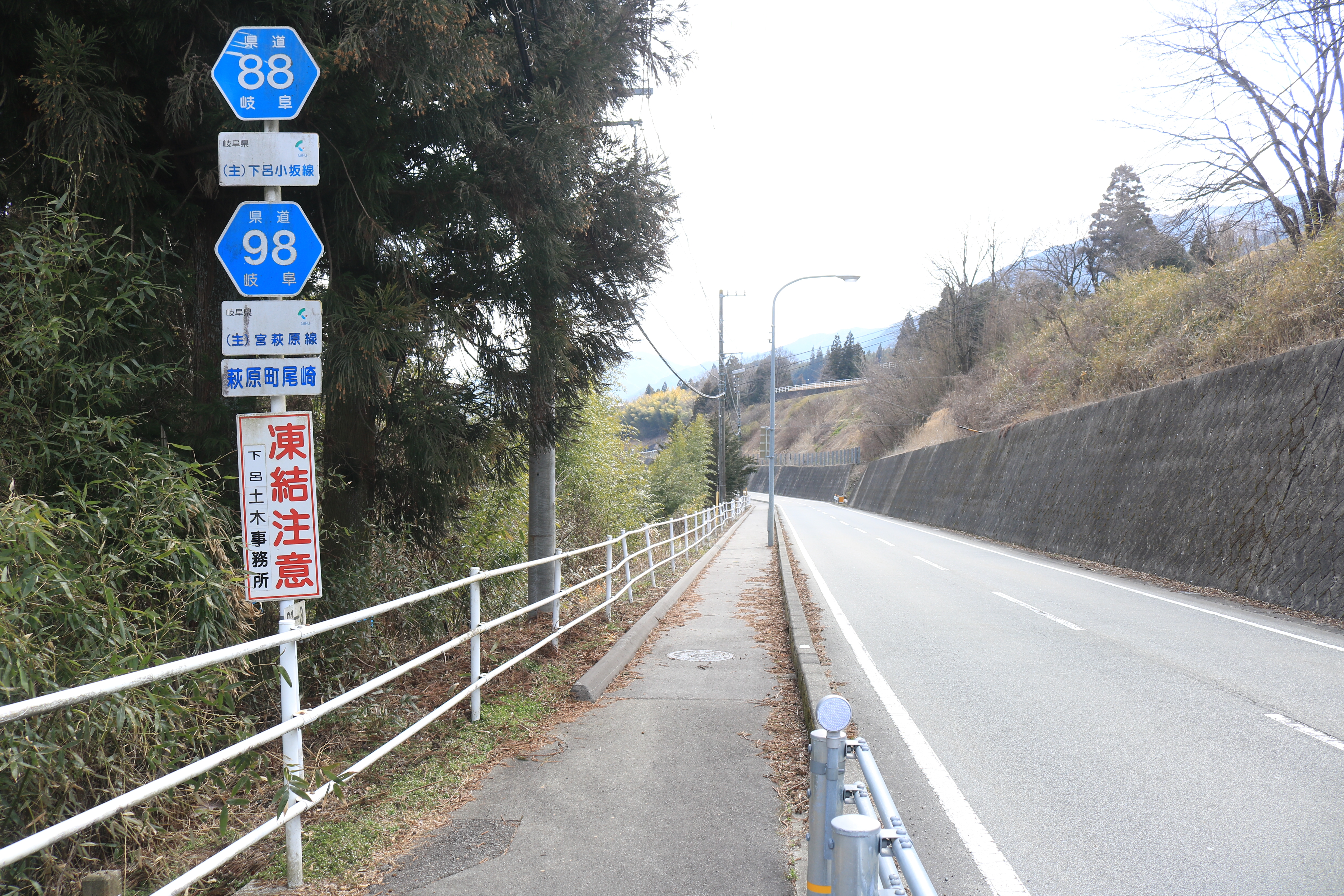 Gifu Prefectural Road Route 88 and Gifu Prefectural Road Route 98 in Osaki, Hagiwara-cho, Gero, Gifu prefecture, Japan.